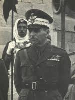 Digital photo of Italian general Bastico (image from Italian Libya in 1942). Modified with my software.